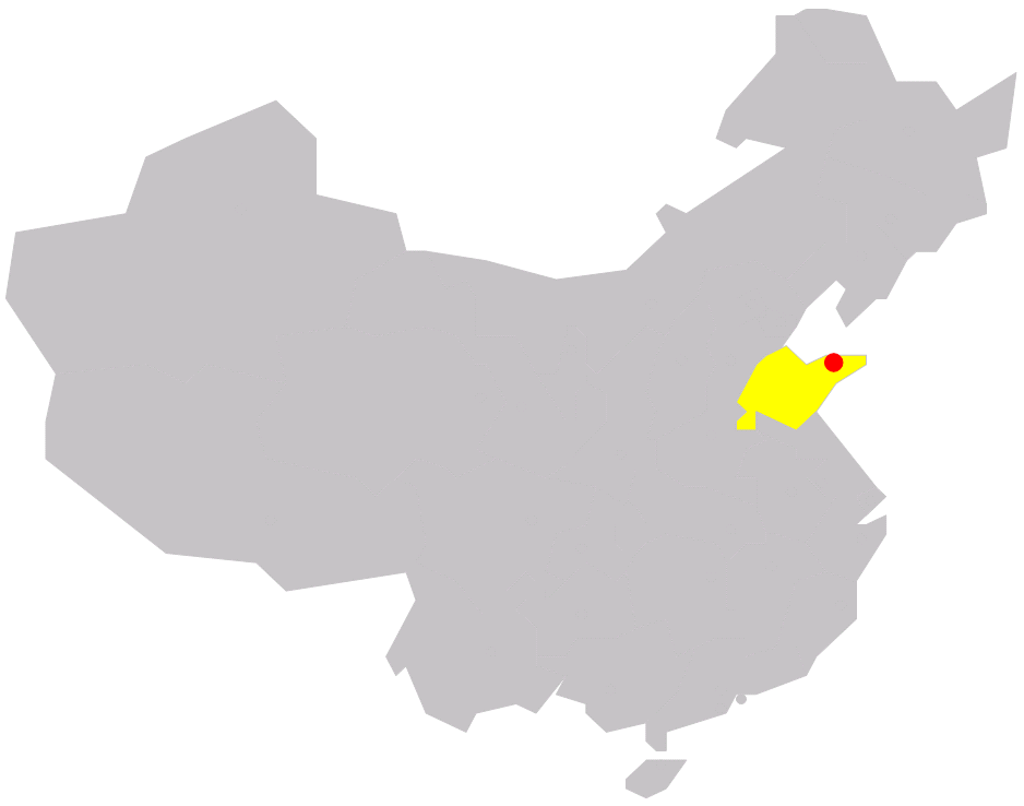 position of Yantai in China